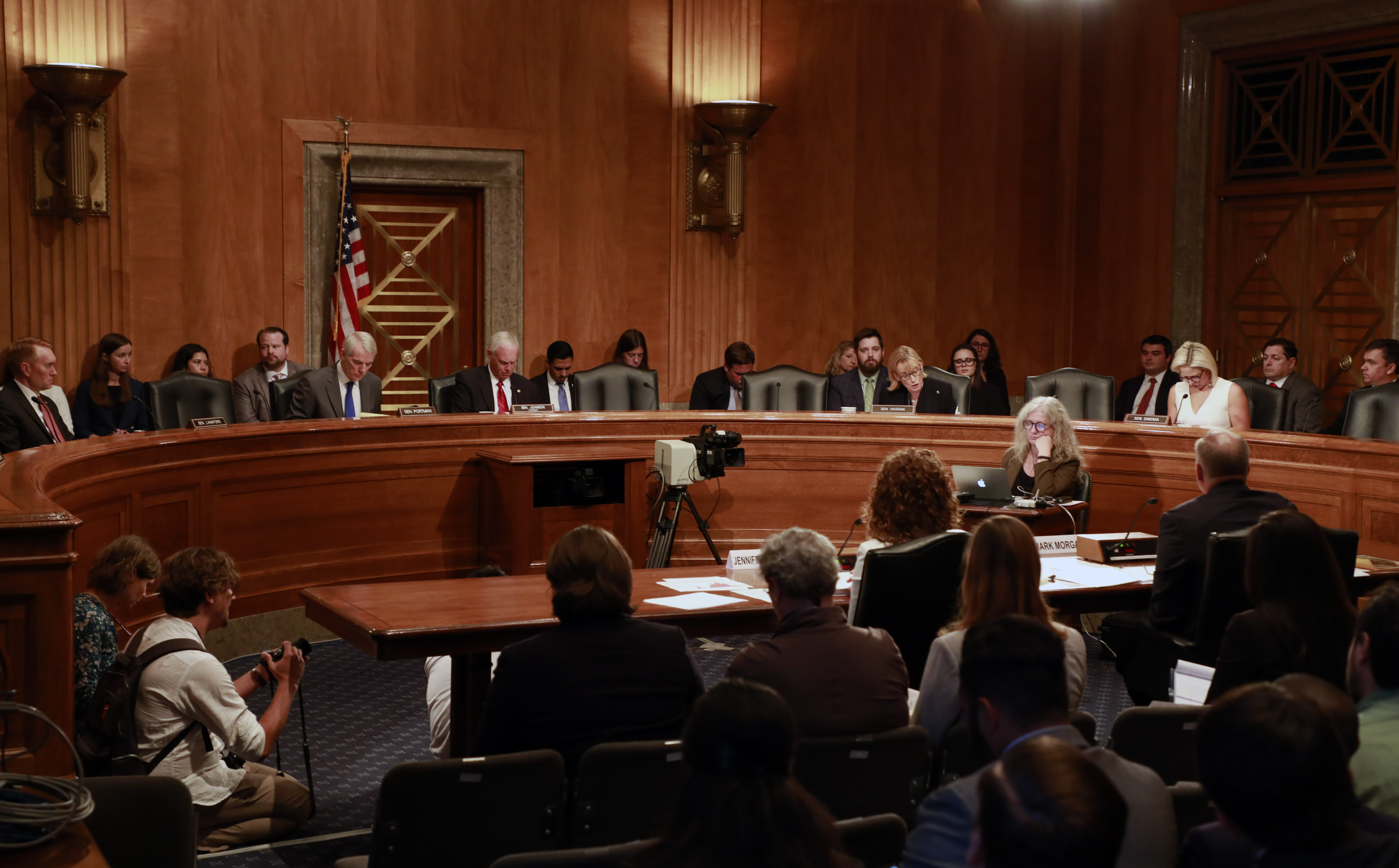 U.S. Customs and Border Protection Acting Commissioner Mark A. Morgan testifies before the Senate Committee on Homeland Security and Governmental affairs in Washington, D.C., July 30, 2019. CBP photos by Jaime Rodriguez Sr